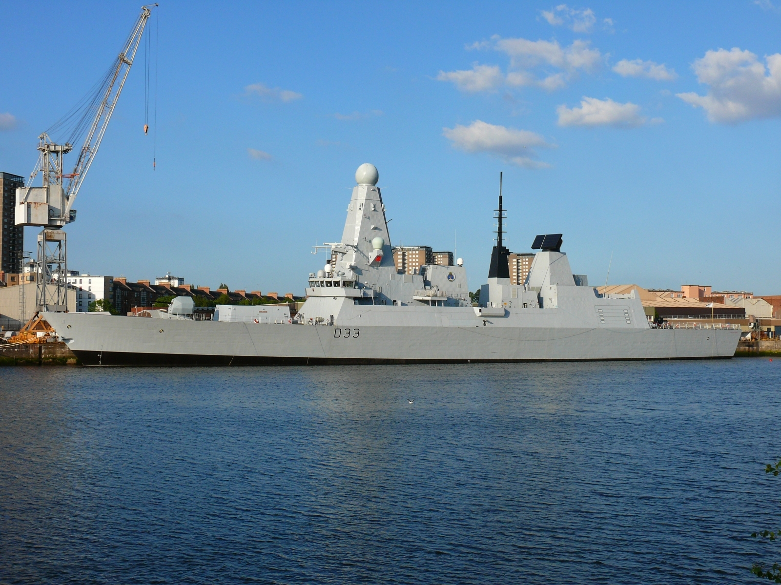 HMS Dauntless in Scotstoun